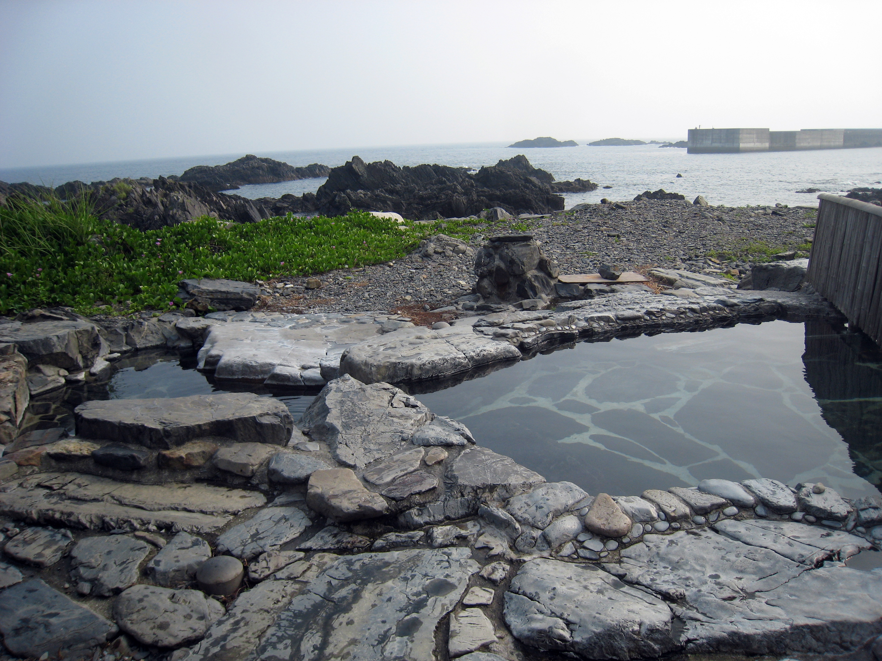 Located right next to the ocean, Yudomari onsen is a natural mineral spring bath. It is a nice place to relax and enjoy the sights and sounds of the ocean.